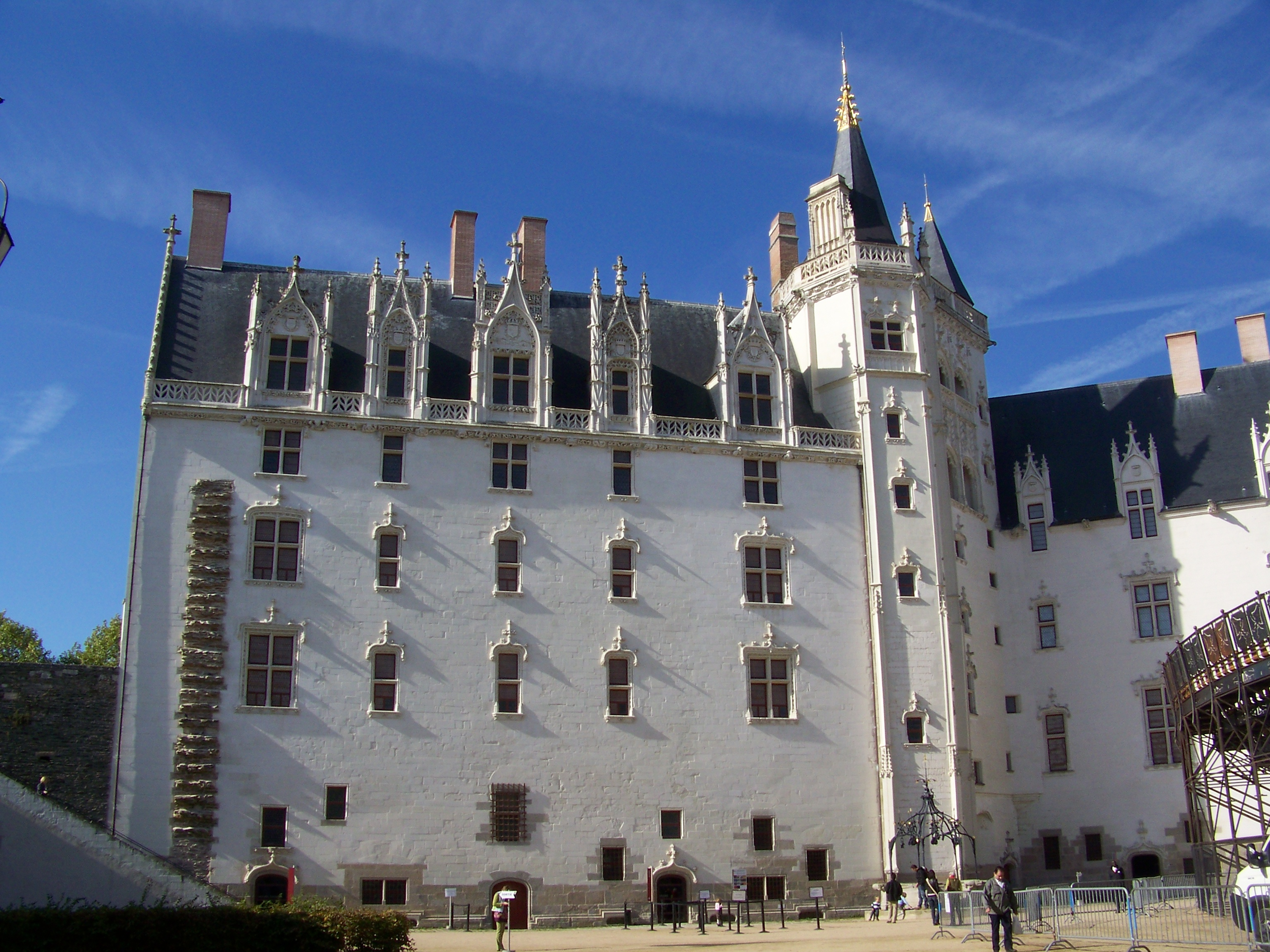 The Grand Gouvernement building in the Château des ducs de Bretagne, in Nantes.